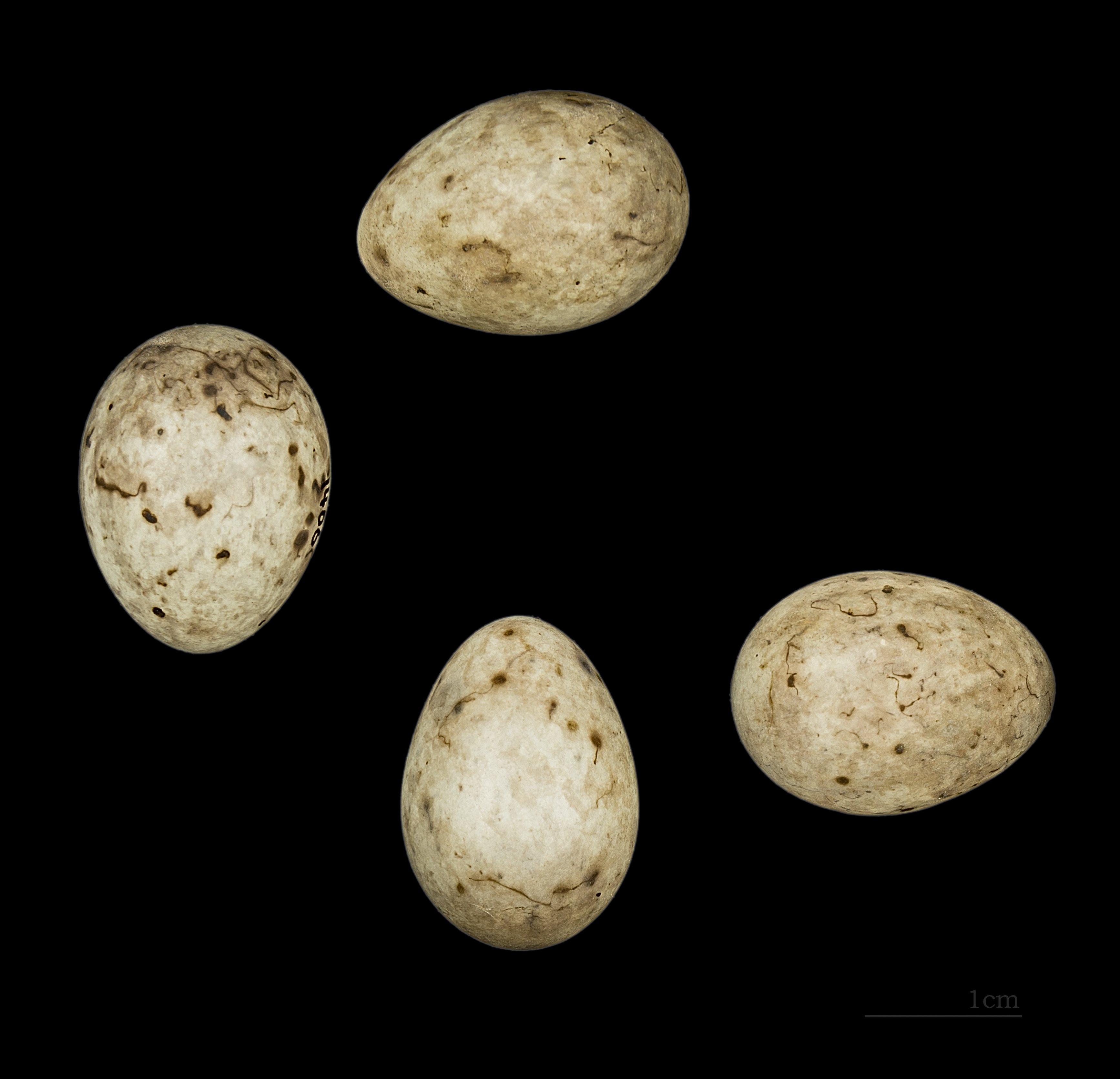 Egg of Yellow-breasted Bunting. Collection of Jacques Perrin de Brichambaut.